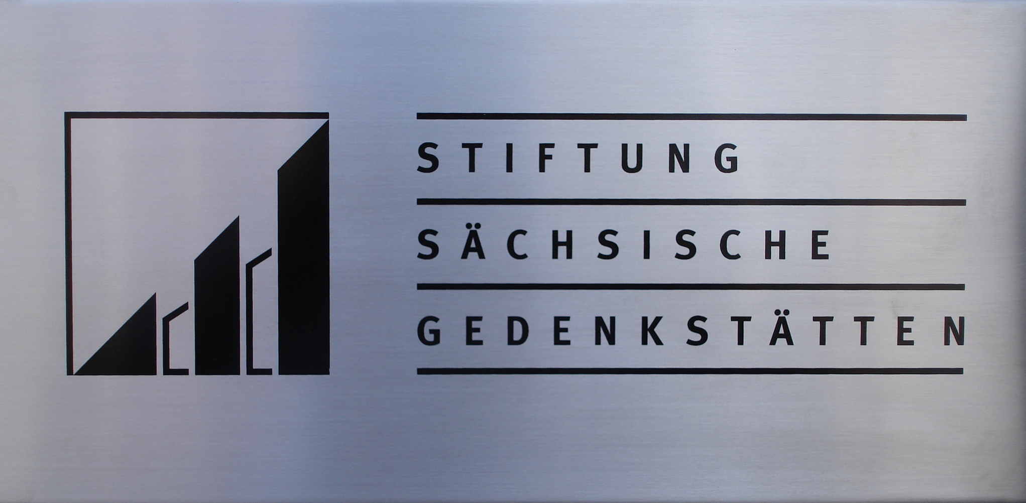 Doorplate Saxon Memorial Foundation dedicated to the memory of the victims of political dictatorship in Dresden